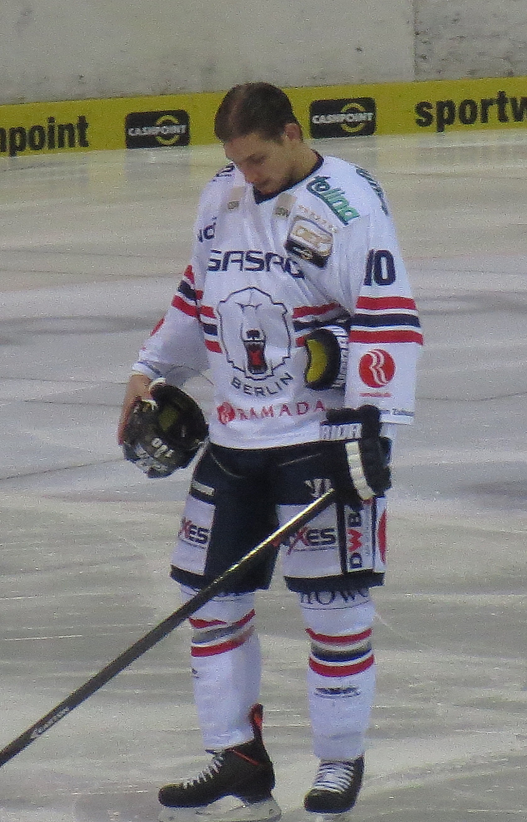 Lalonde wearing the Eisbären Berlin jersey 2013